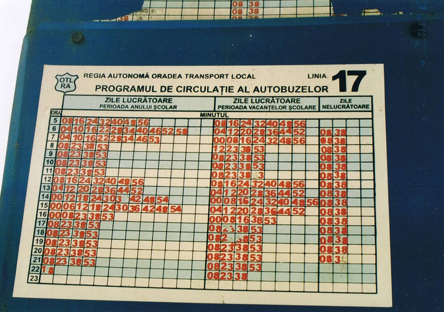 Oradea, Romania. A city bus timetable.